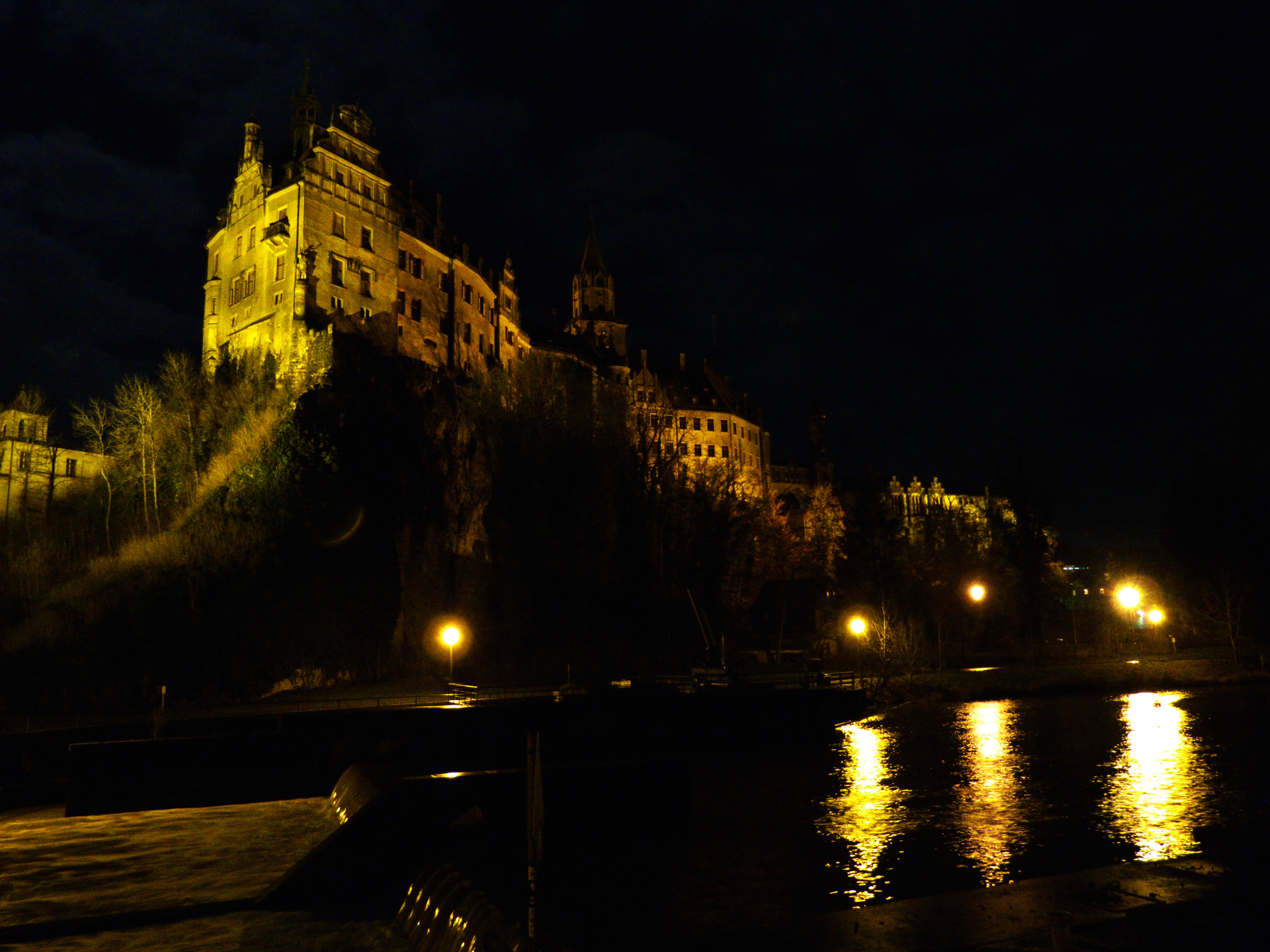 The Danube In Sigmaringen